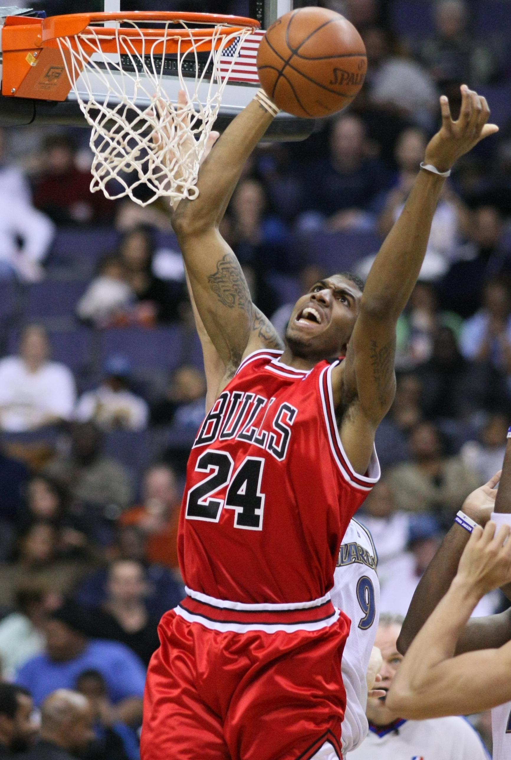 Tyrus Thomas playing with the Chicago Bulls